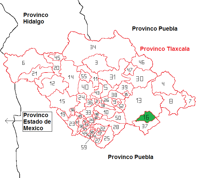 locator map Tlaxcala